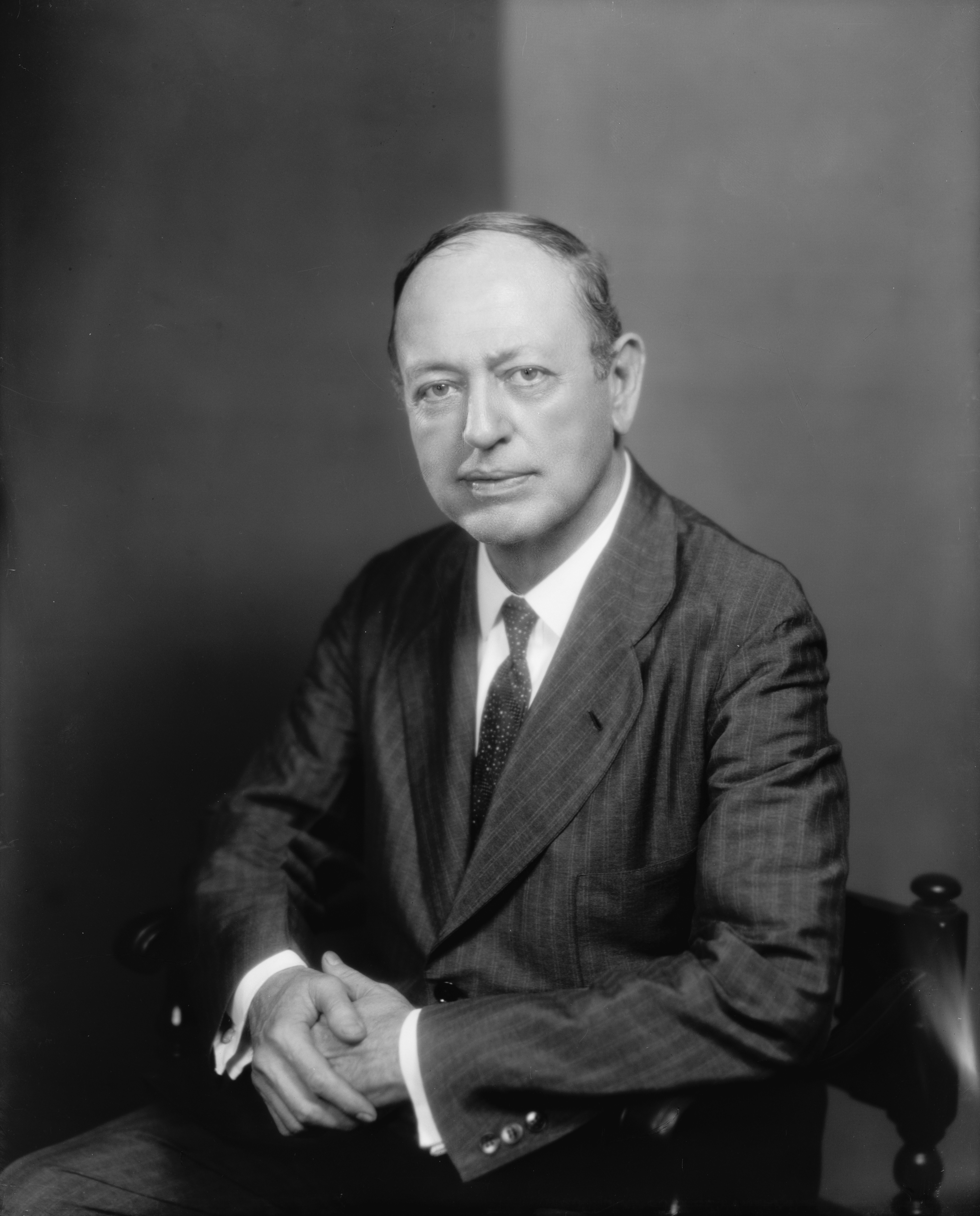 Title: STEPHENS, HUBERT. HONORABLE Abstract/medium: 1 negative : glass ; 8 x 10 in. or smaller